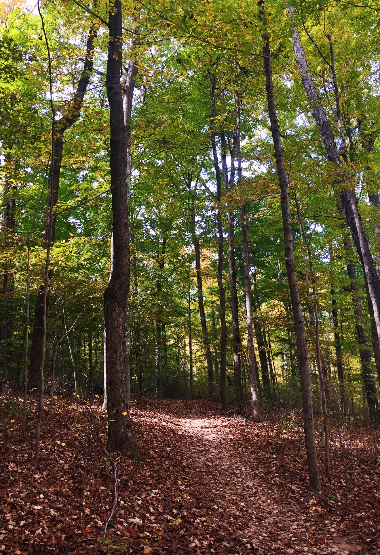 A hiking trail in the 400-acre woods of Mount Saint Francis in Floyds Knobs, Indiana.